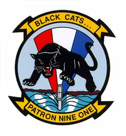 Logo of the U.S. Navy Patrol Squadron 91 (VP-91).